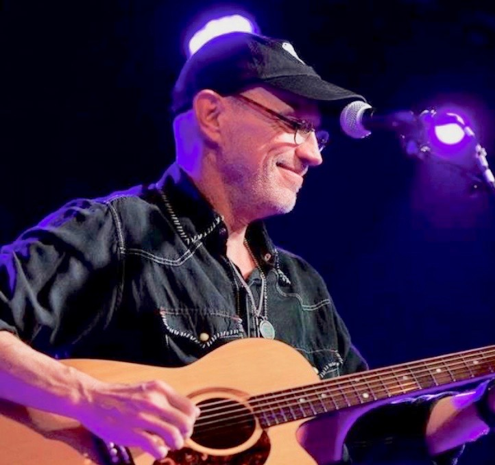 Gordon Kennedy (musician) at Backstage Nashville Live, July 2018